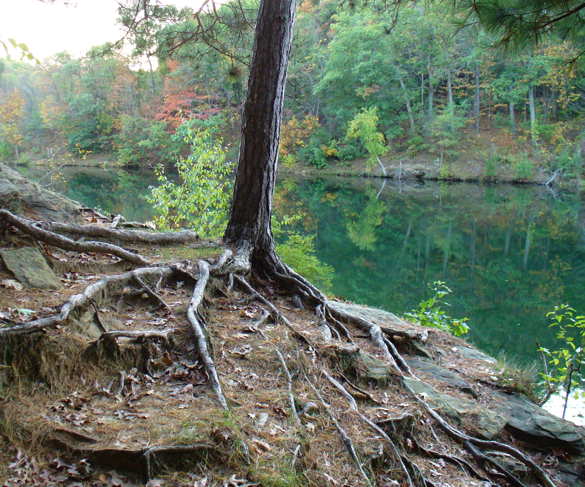 A scenic photo taken near Madison, Wisconsin of a red pine (Pinus resinosa).